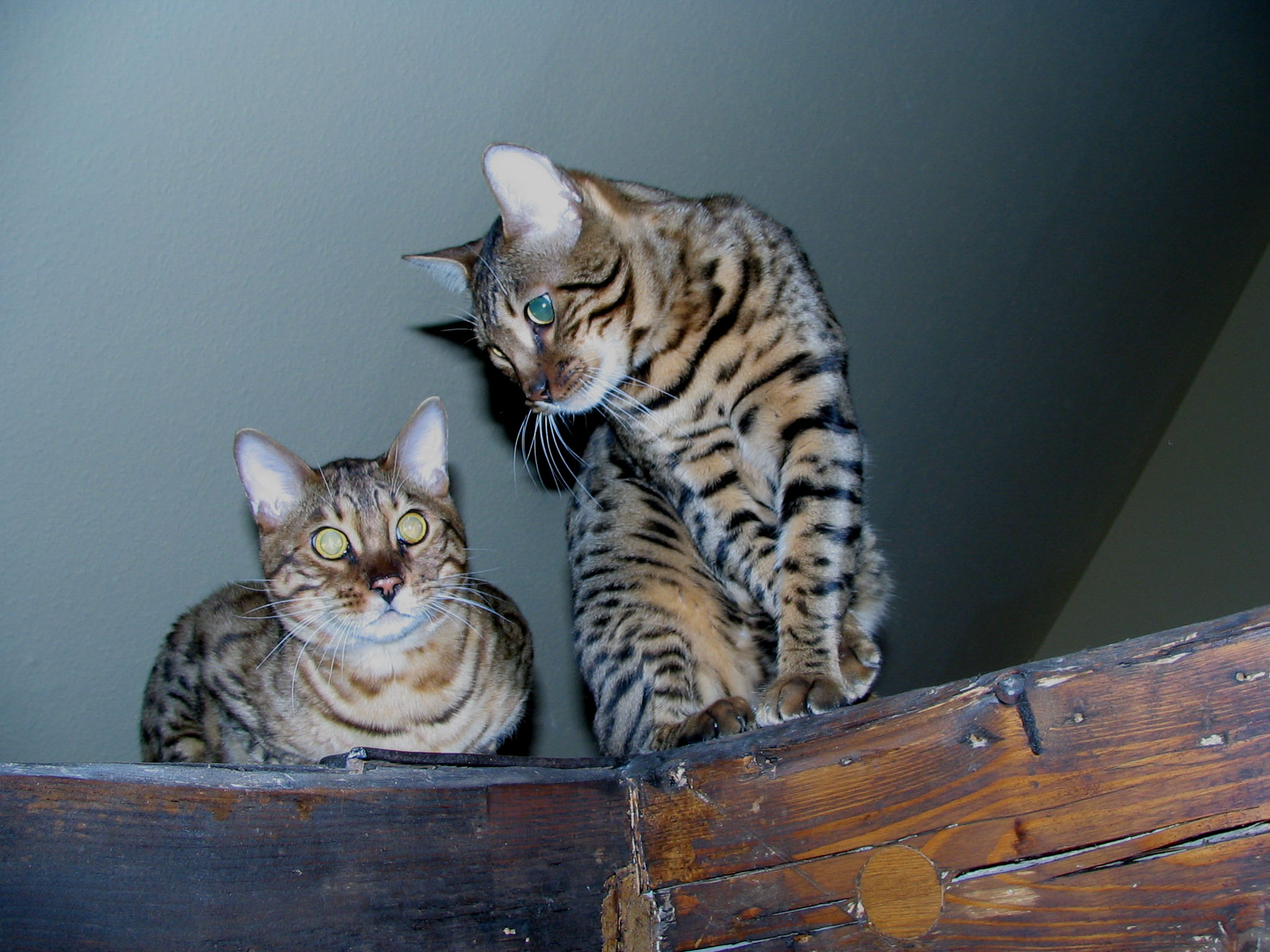 Two male Bengal Cats.